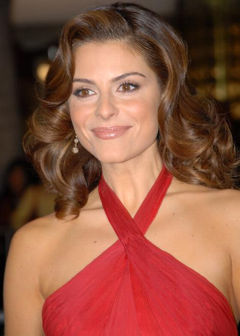 January 7, 2008 - 27 Dresses Premiere in Westwood